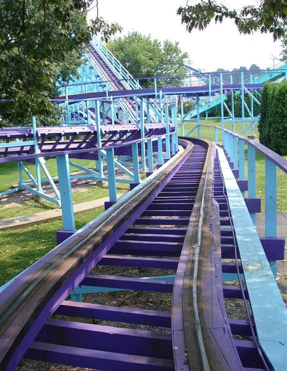 I took this picture while visiting Dutch Wonderland.